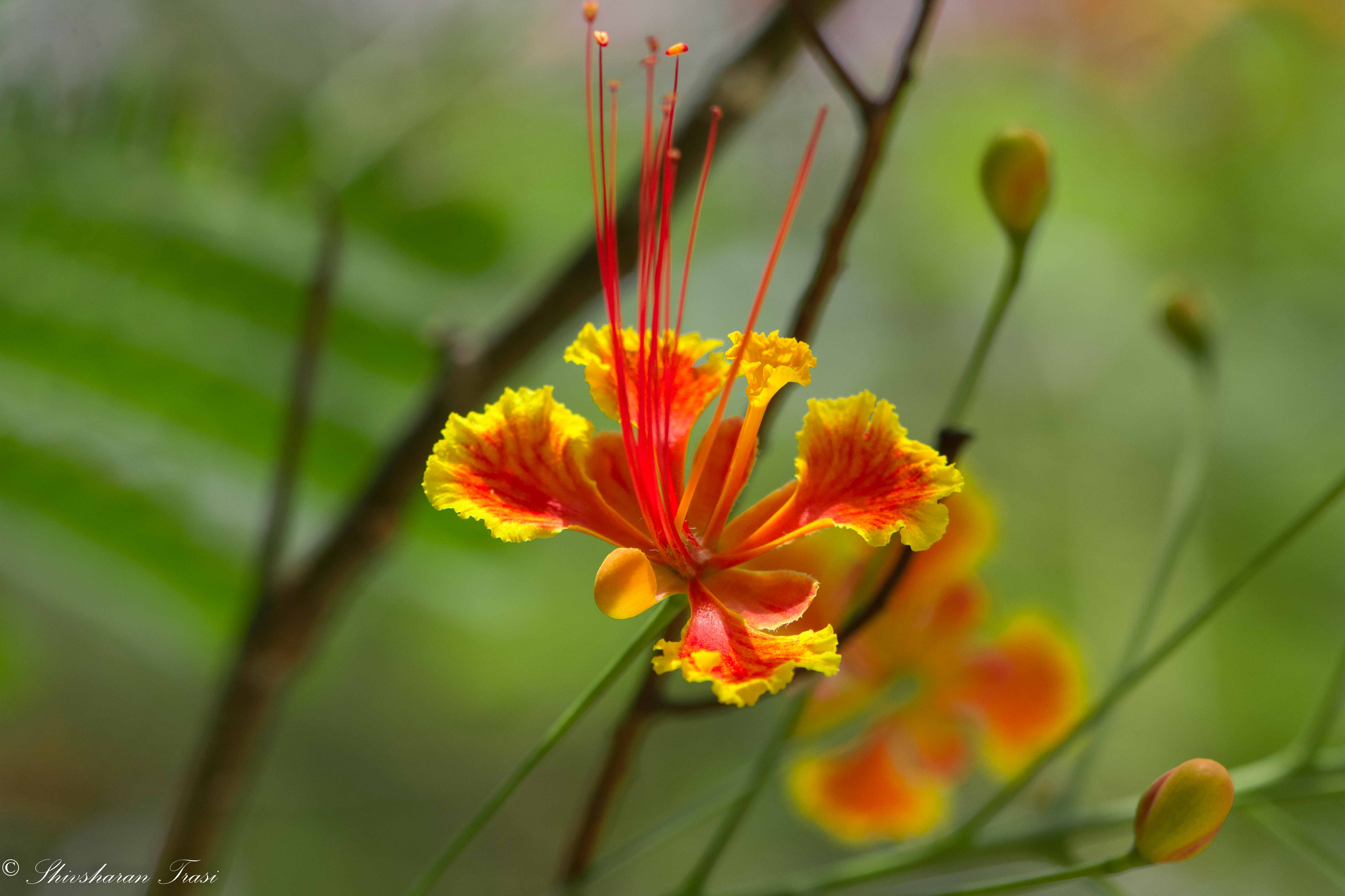 Often referred to as the Peacock flower or bird of paradise